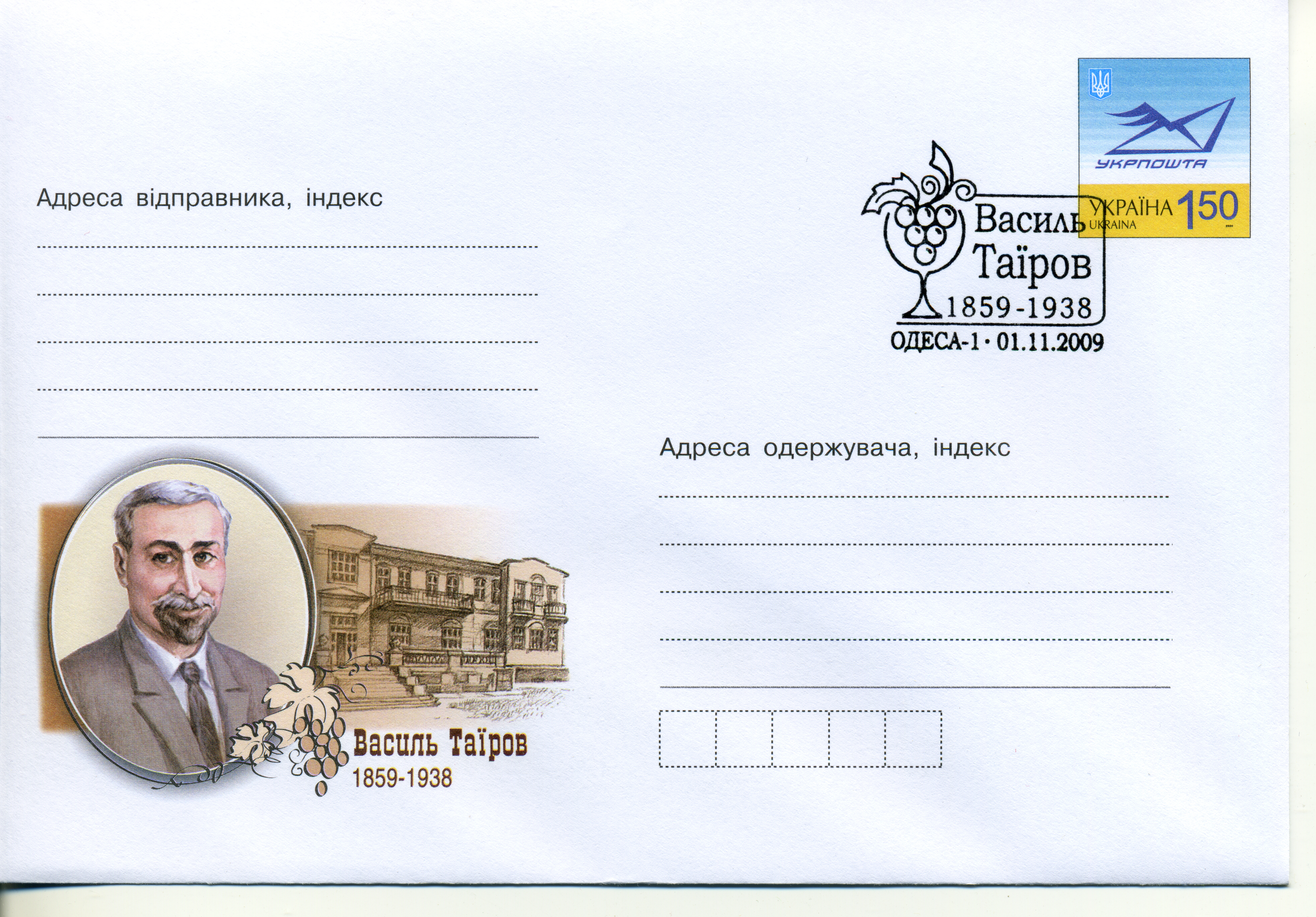 Vasyl Yehorovych Tayirov — scientist and viticulturist from Ukraine (ethnicity was Armenian).